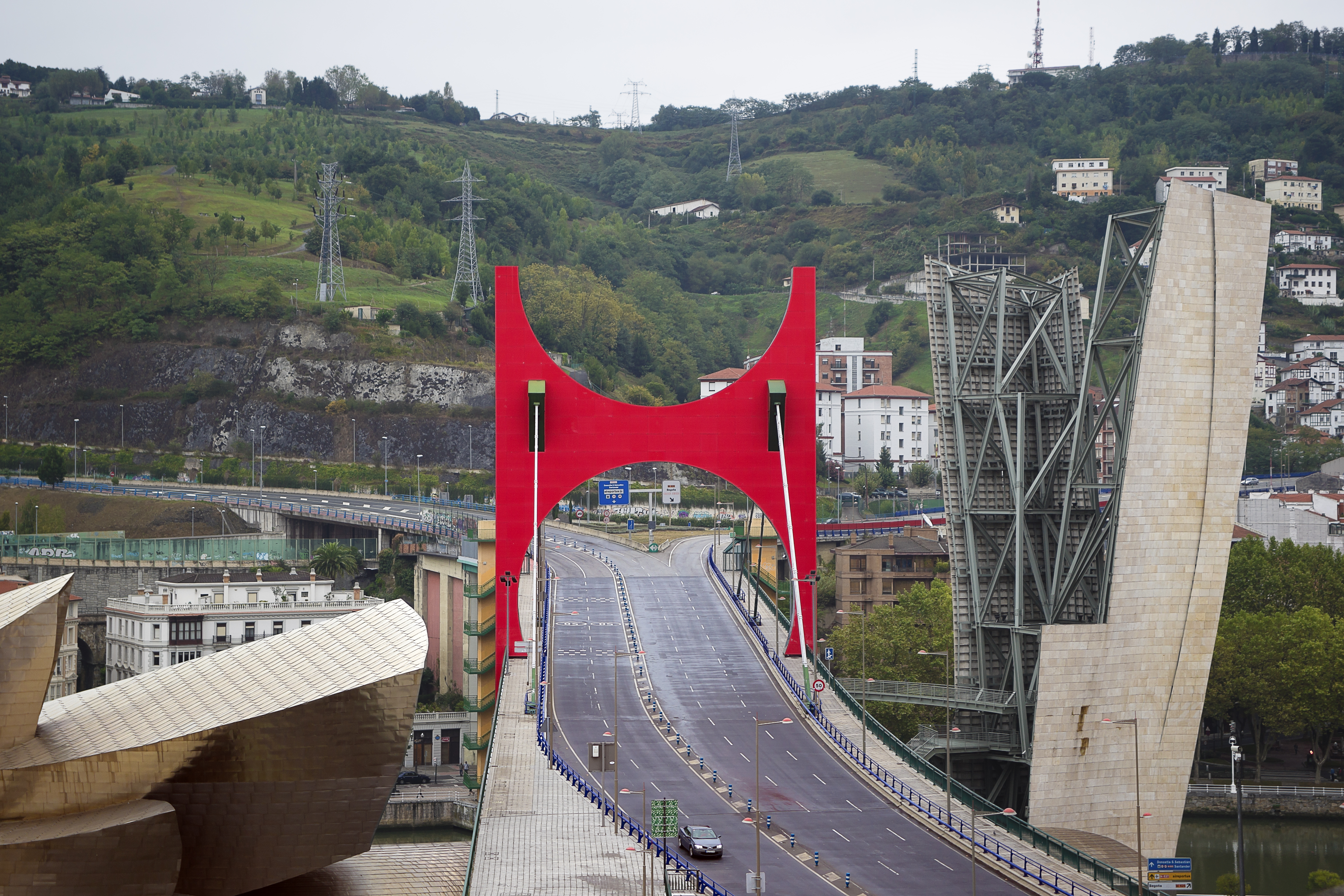 « L’arc Rouge » (The red arc) from Daniel Buren, which supports the « Puente Príncipes de España ». Locality: Guggenheim Museum Bilbao Spain.